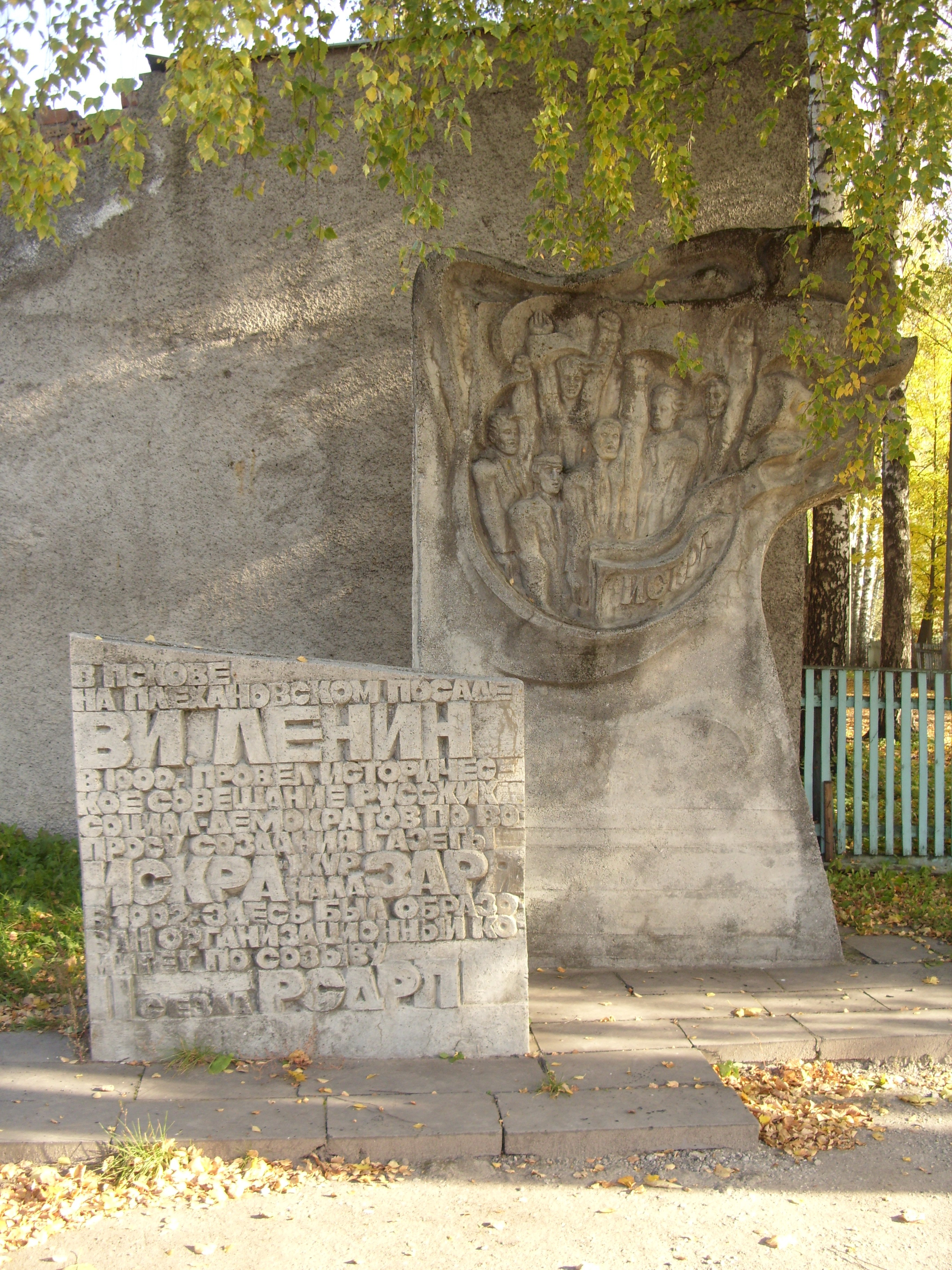 Pskov Iskra